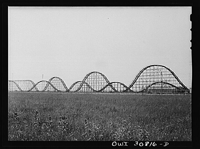 The Skyrocket roller coaster Houston Texas Part of: Farm Security Administration - Office of War Information Photograph Collection (Library of Congress)